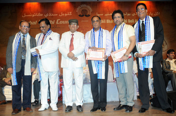 Lachhman Chatnani,Ram Jawhrani,Anthony Arun Biswas,Pahlaj Nihalani,Govinda,Chandru Punjabi From The Govinda graces Mother Teresa International Award